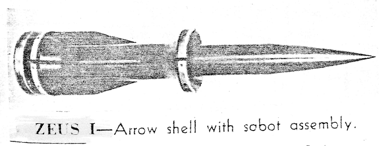 Depiction of the "Zeus I" (SAM-N-8) shell